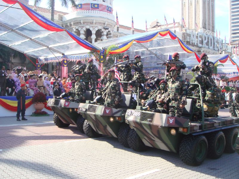 Soldiers of the Malaysian Army sit on a Supacat ATMP (All Terrain Mobility Platform).